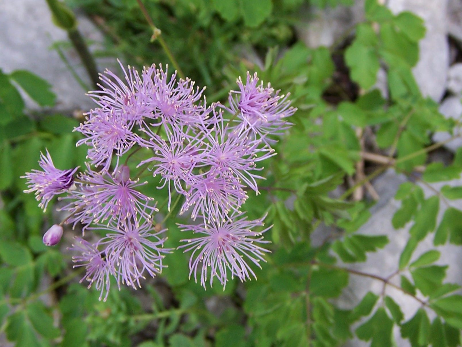 Thalictrum aquilegifolium (pl. rutewka orlikolistna), habitat: West Tatra Mountains, Kobylarzowy Żleb